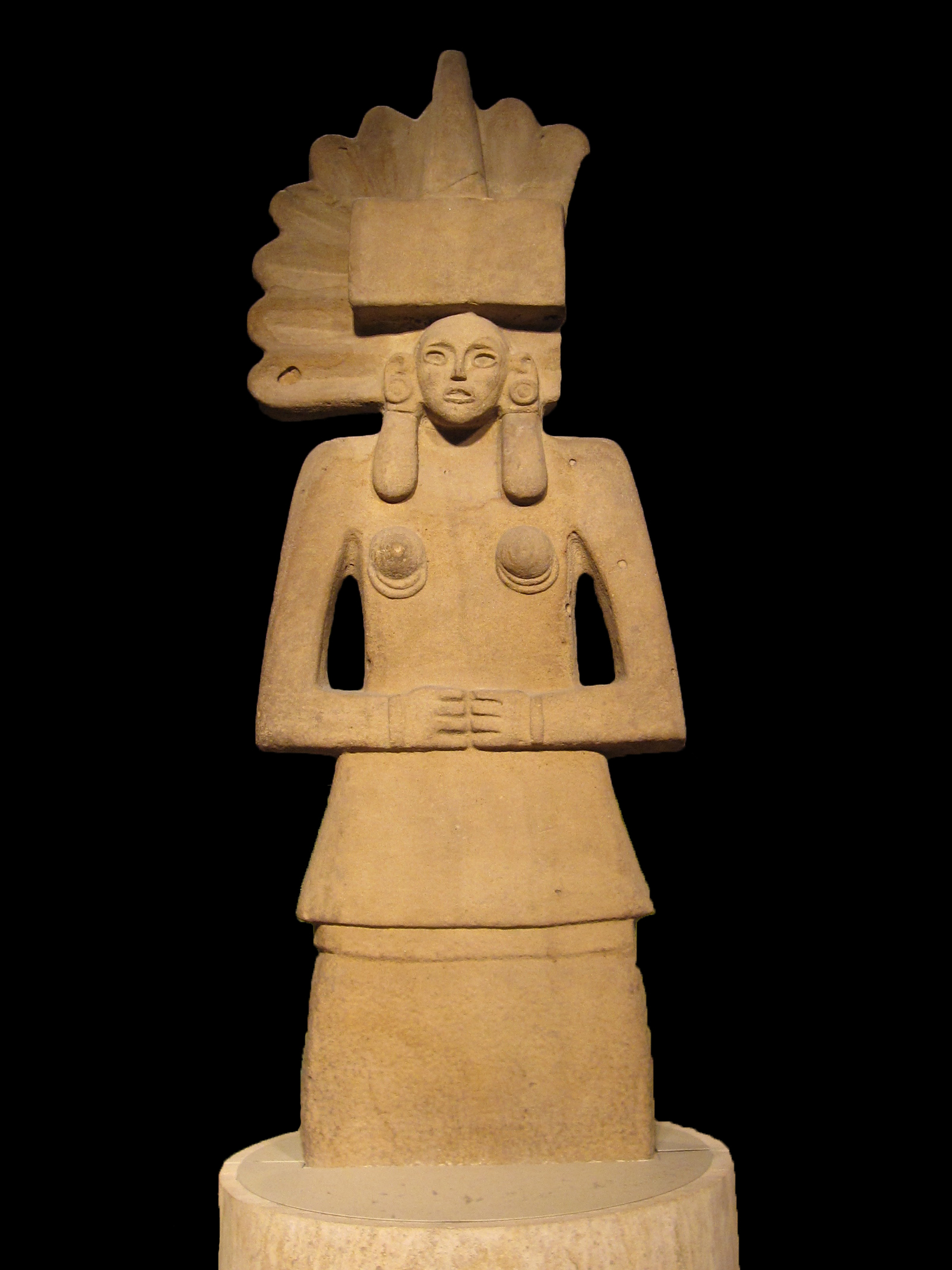 Huaxtec female deity, Tlazolteotl. Ethno. Q 89 Am 3.1. British Museum.